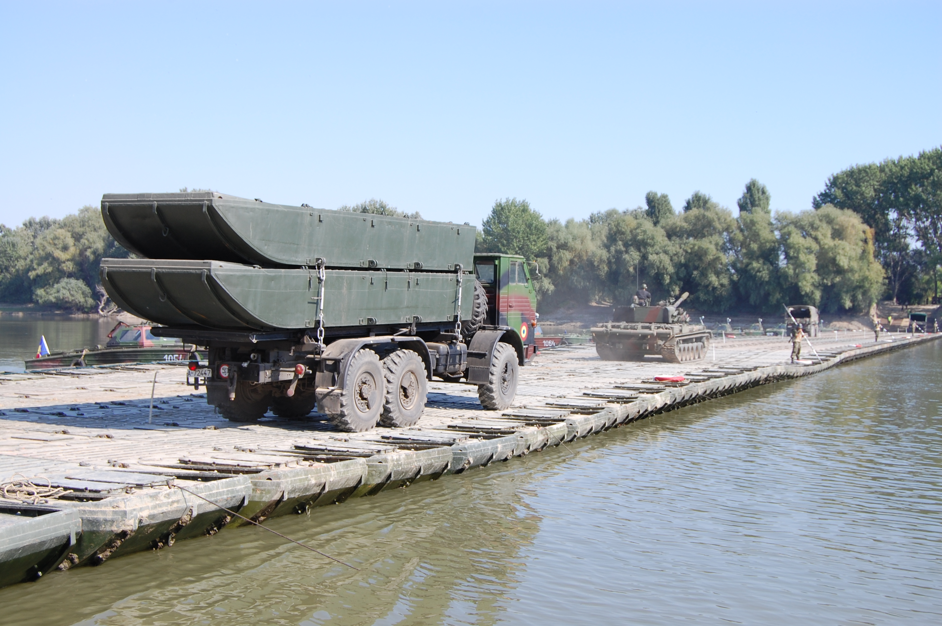 TR-85M1 tank safely traversing a pontoon bridge.